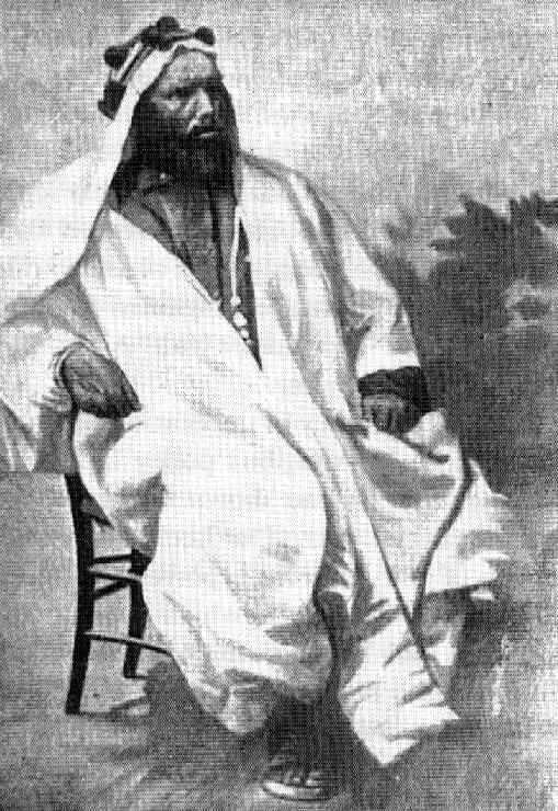 Own Scan. Public domain on account of age. From the book "A history of modern Ethiopia, 1855 - 1991", Bahru Zewde, 2002, Ohio University Press, page 47 "Ras Alula shown in Arab costume".